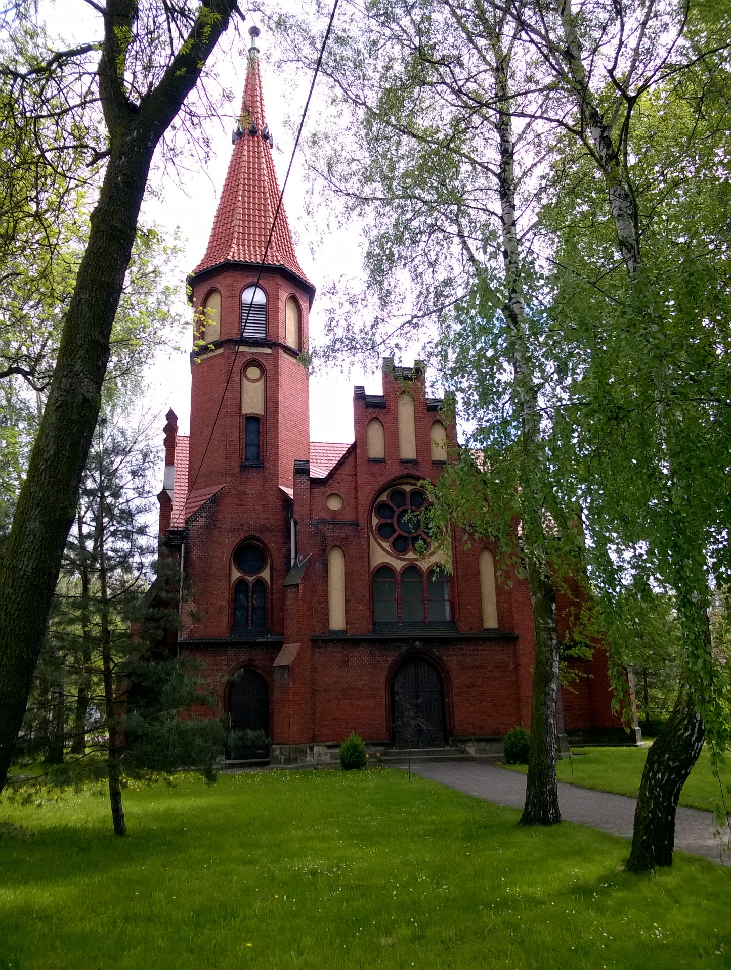 Lutheran church in Gliwice Łabędy